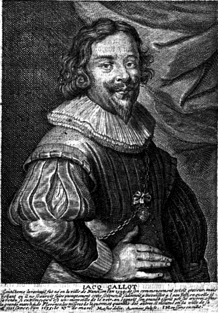 Portrait of Jacques Callot in Cornelis de Bie's Gulden Cabinet. Inscription: „IACQ CALLOT Gentilhome lorainos [sic], il fut né en la ville de Nanci, en l’an 1594. de son commencement estoit graveur, mais voyant qu il ne scauroit faire promptement cette science, il sadonnoit [= se donnait] a travailler a l eau fort[e], en quelle il sa [= s’est] rendu si extreme qu’il est un merveille de le voir, on cognoit [= connaît] son grand esprit per [= par] ses oeuvres, comme la grande marché de Florence, les miseres de la guerre, et quantite des autres. il mourut en la ville de sa naissance, l’an 1635, le 27me de mars. M[ichel] Lasne delin[eavit]. A[ernout] Loemans sculpsit. I[an] Meyssens excudit.“